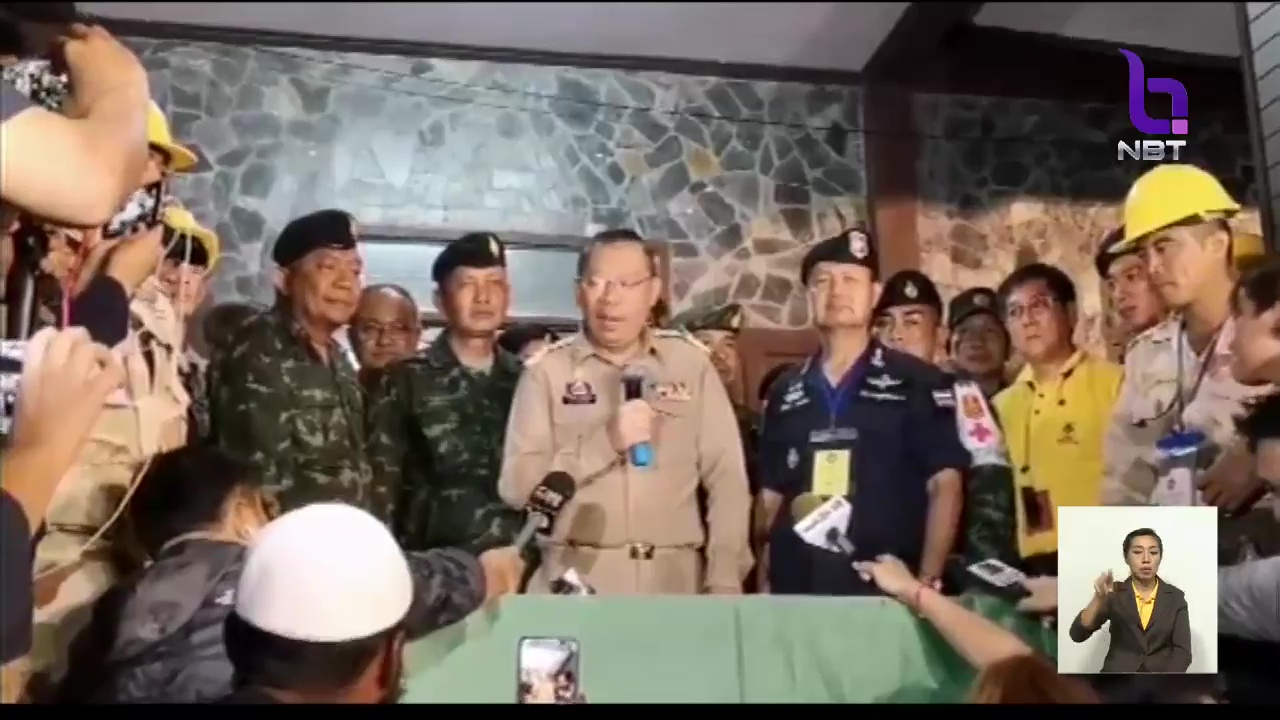 Chiang Rai Governor Narongsak Osottanakorn announces to the press that rescuers have reached the group of boys and their coach stranded in Tham Luang cave, on 2 July 2018.